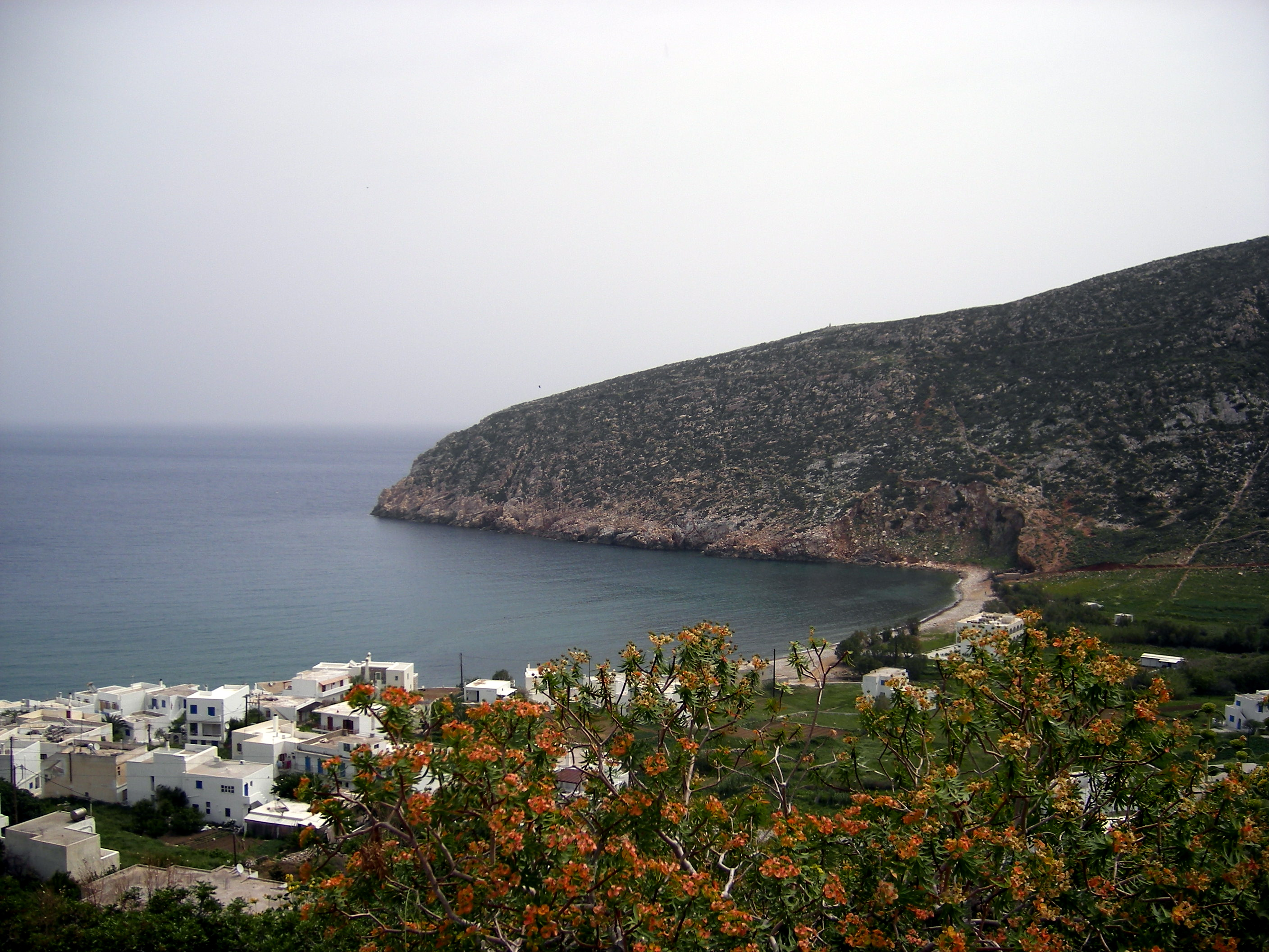 Appolonas (Naxos), NNE. village and bay of Naxos island